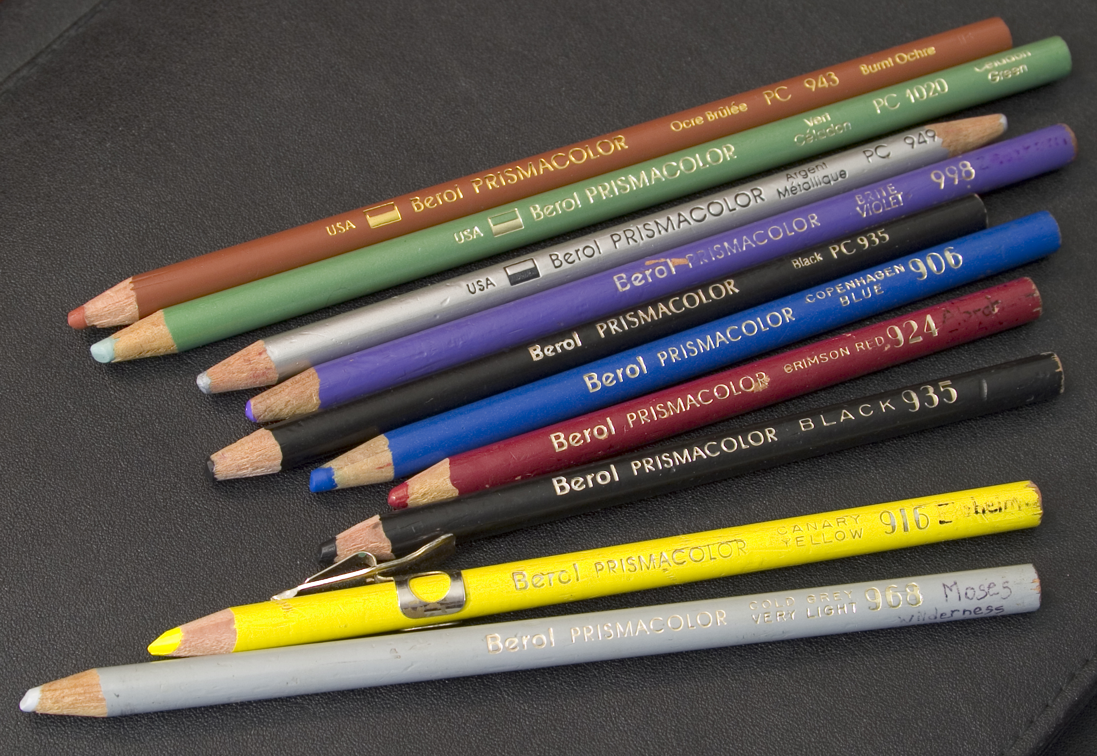 Colored pencils manufactured by Berol. This image demonstrates a variety of the Prismacolor imprints which were used. The oldest ones continued using the same typeface as the Eagle imprint for the numbering. A suprizing number of changes were made to the imprint during its years of production from 1969 to sometime after 1995 when the Newell Company (who had also purchased Sanford) bought Berol and shifted production to Sanford. Note: if the color selection looks a bit odd in this shot it is because I selected the pencils primarily to show the different imprints which were used.